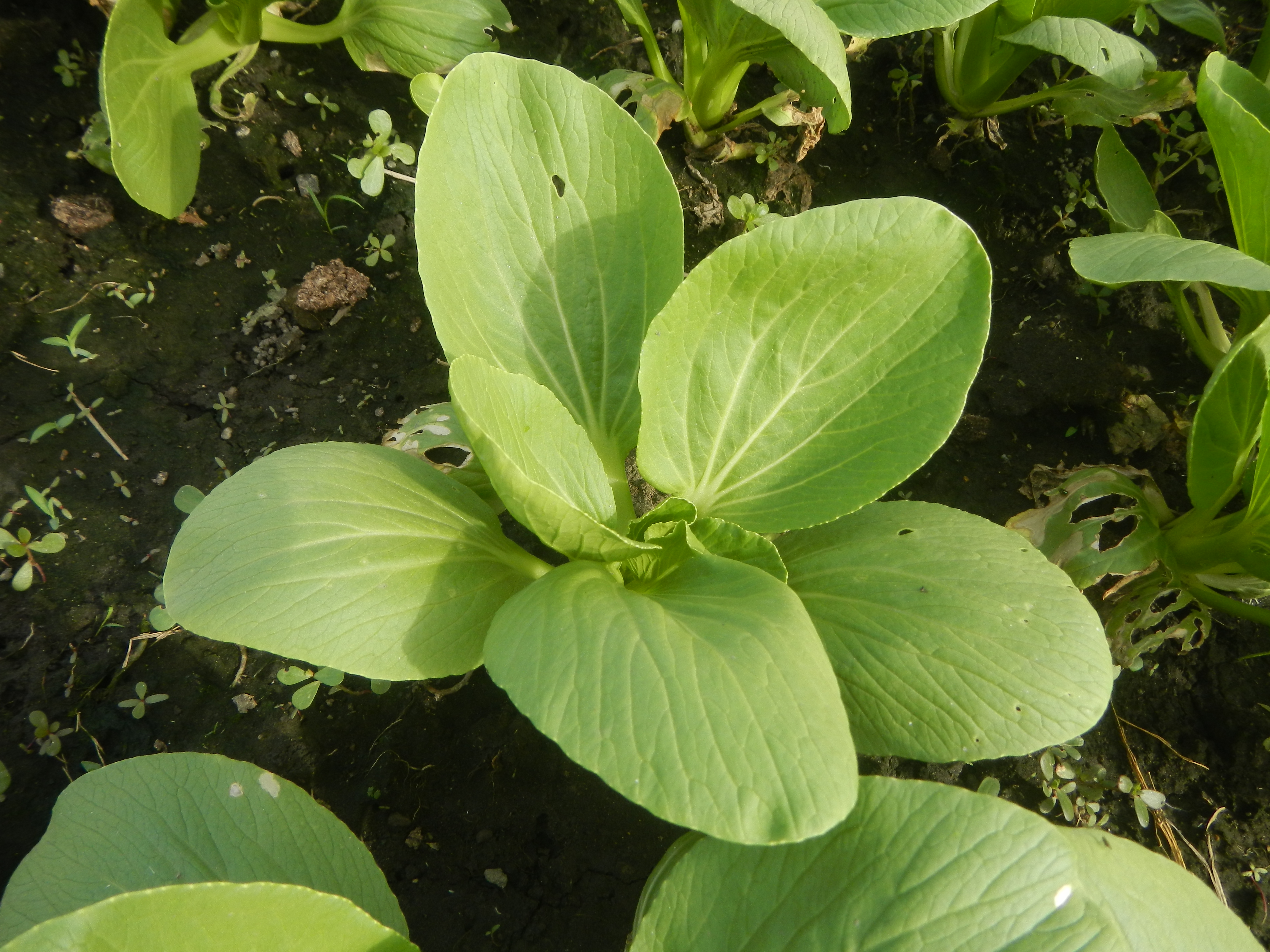 Vegetable plantations in Pulilan, Bulacan including the Ipomoea aquatica Ipomoea aquatica Kangkong Tsina LP Kangkong Ipomoea aquatica Forsk. Convolvulus reptans Linn. Bok choy Brassica rapa subsp. chinensis or Brassica rapa subsp. chinensis var. parachinensis Gai Lan Kai-lan Kailan Kena brocolli leaves broccoli cultivated for the leaves Chinese broccoliSpinacia oleracea Spinach fields in Barangay Taal, Pulilan, Bulacan Vegetable plantations from the Pulilan-Baliuag interior National Road and towards along Pan-Philippine Highway, also known as the Maharlika "Nobility/freeman" Highway in Cagayan Valley Road (Note: Judge Florentino Floro, the owner, to repeat, Donor Florentino Floro of all these photos hereby donate gratuitously, freely and unconditionally all these photos to and for Wikimedia Commons, exclusively, for public use of the public domain, and again without any condition whatsoever).